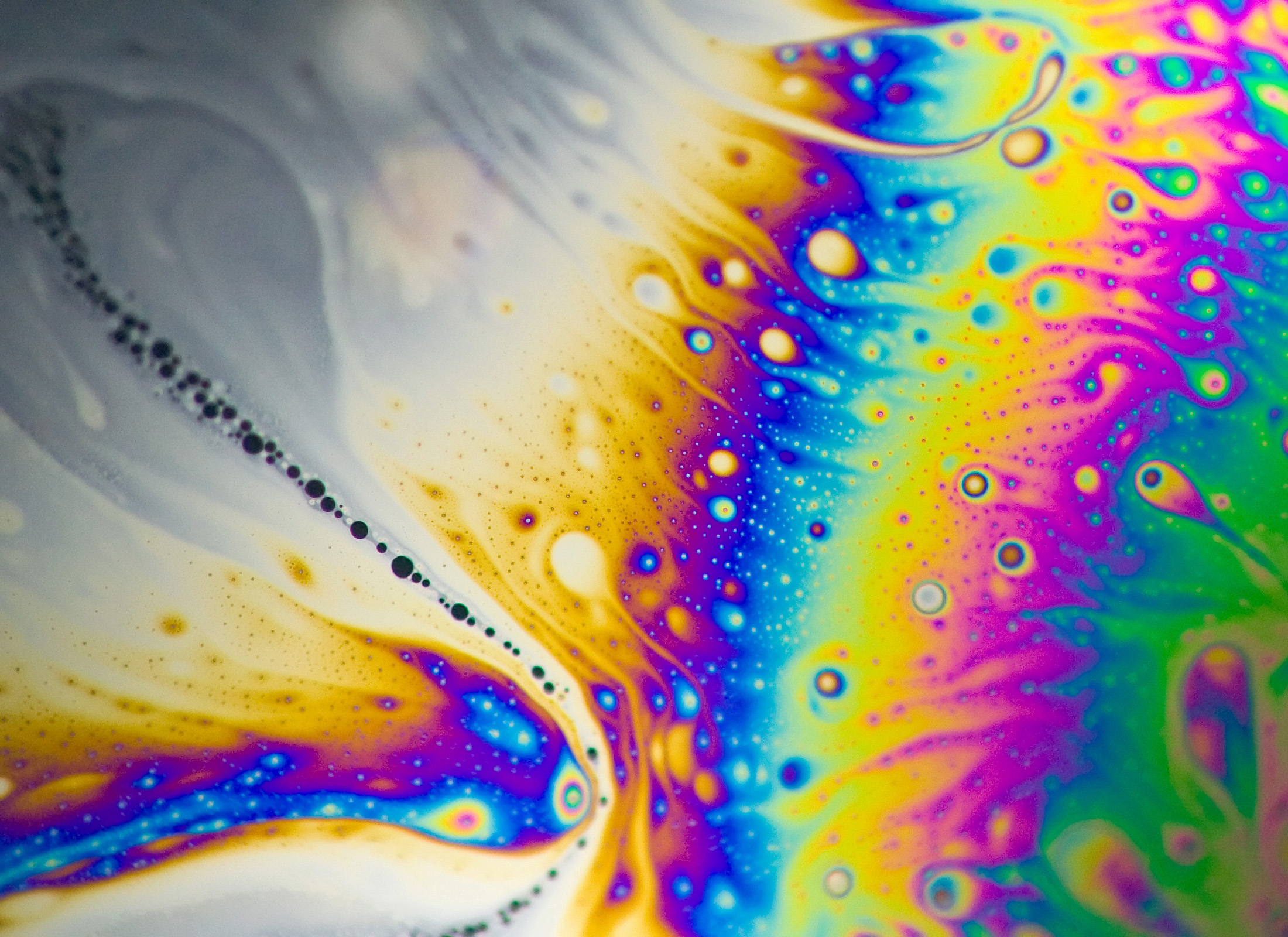 This for a while is going to be the last of the soap films series. View On Black